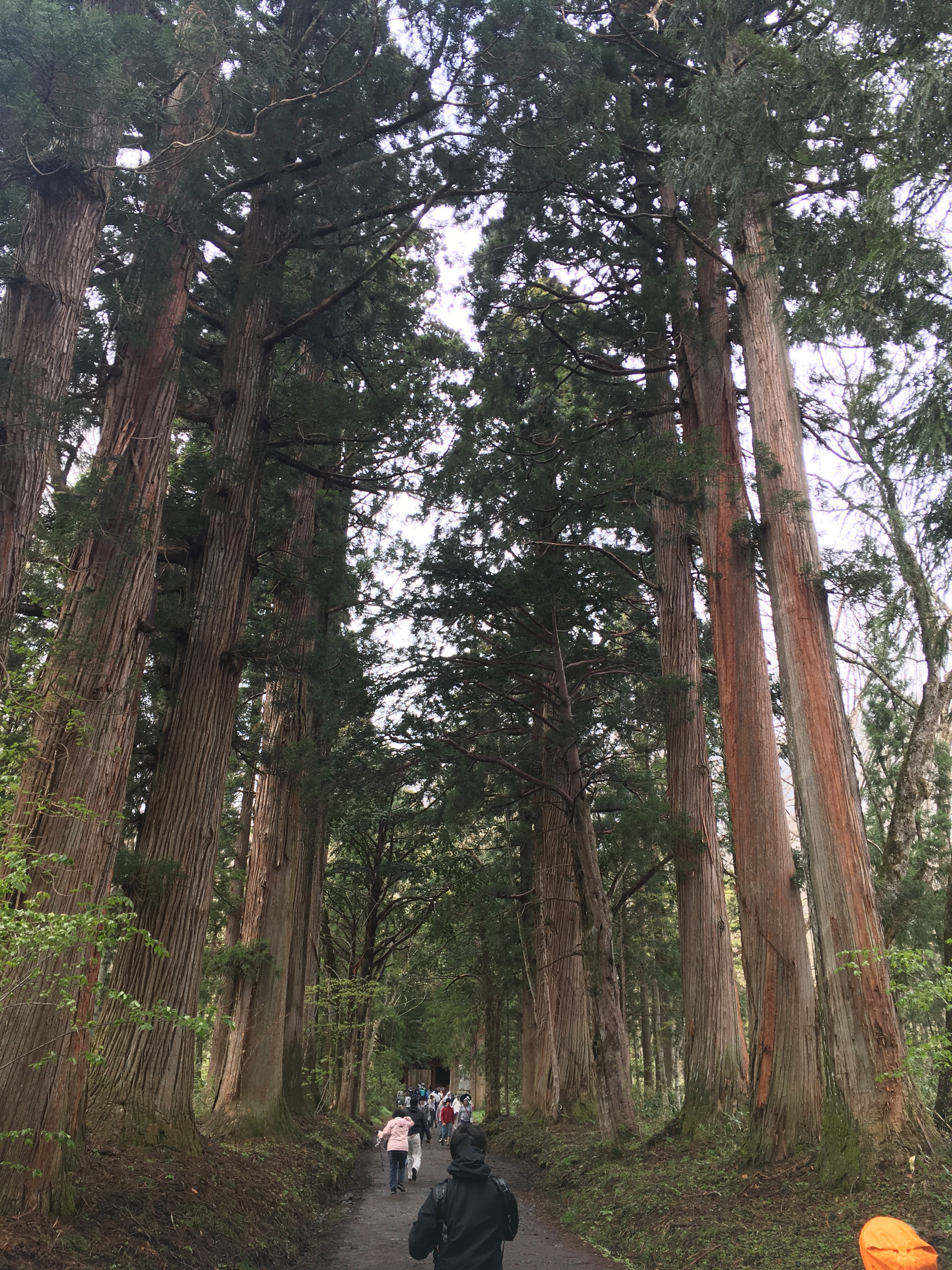 This a a photo along the route to Oku Shrine, on Mt. Togakushi, Nagano City